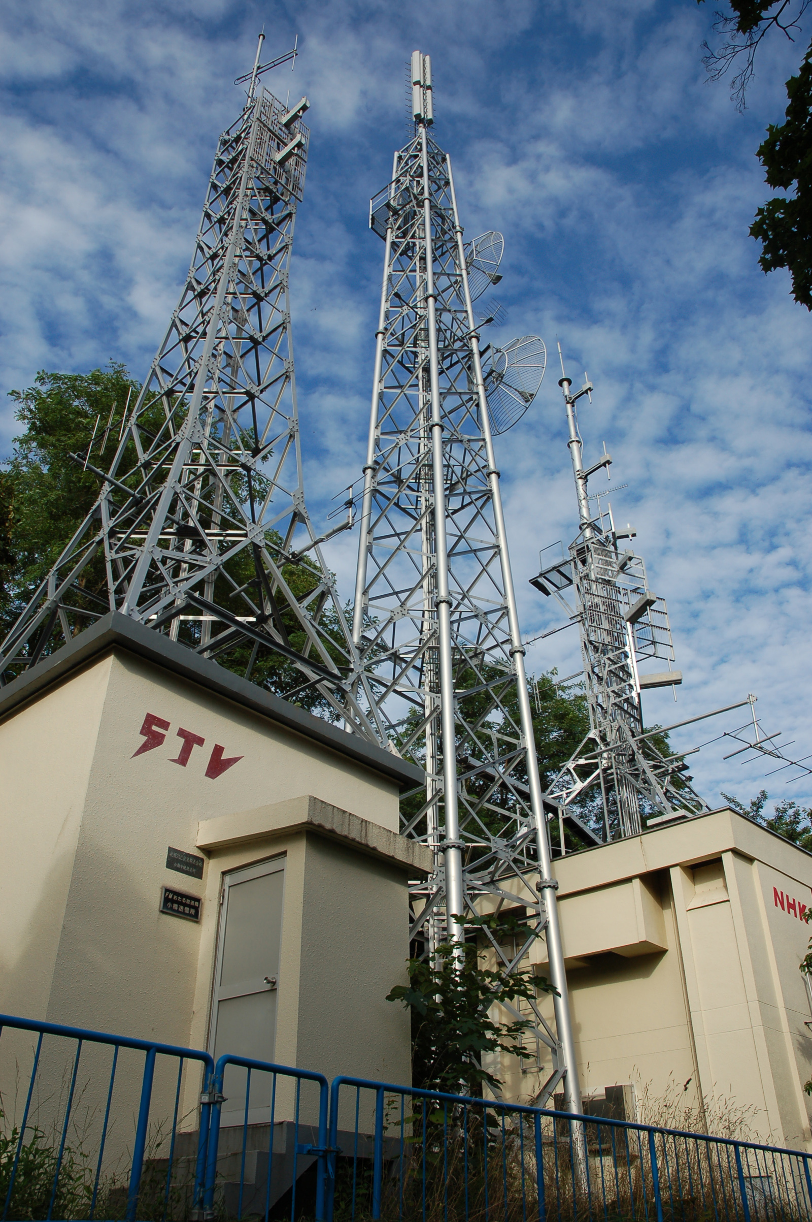 Digital Terrestrial Broadcasting Base Antenna in Otaru, Hokkaido.